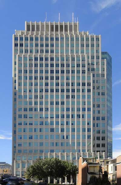 1201 North Market Street (also known as the Chase Manhattan Centre) is the tallest building in both the city of Wilmington and the state of Delaware. Photo taken from the southeast along North King Street.